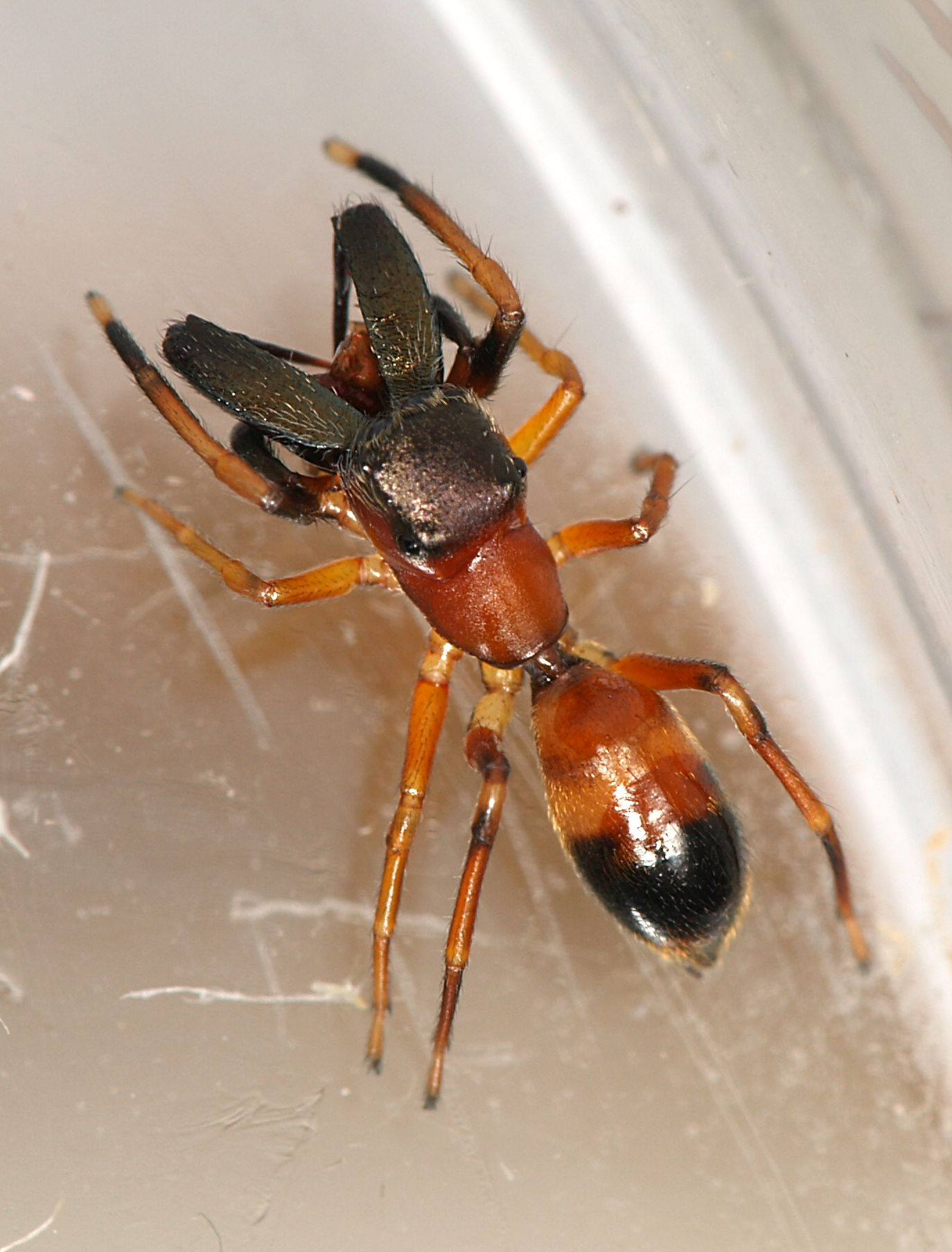 male Myrmarachne formicaria from Cologne, Germany.